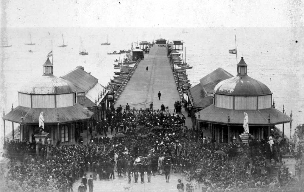 The body of Domingo Faustino Sarmiento while being received for the crowd at the dock of Buenos Aires port. The coffin arrived from Paraguay, where Sarmiento died, and was carried to the Recoleta Cemetery of Buenos Aires.